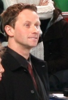 Igor Shpilband at the 2010 Trophée Eric Bompard